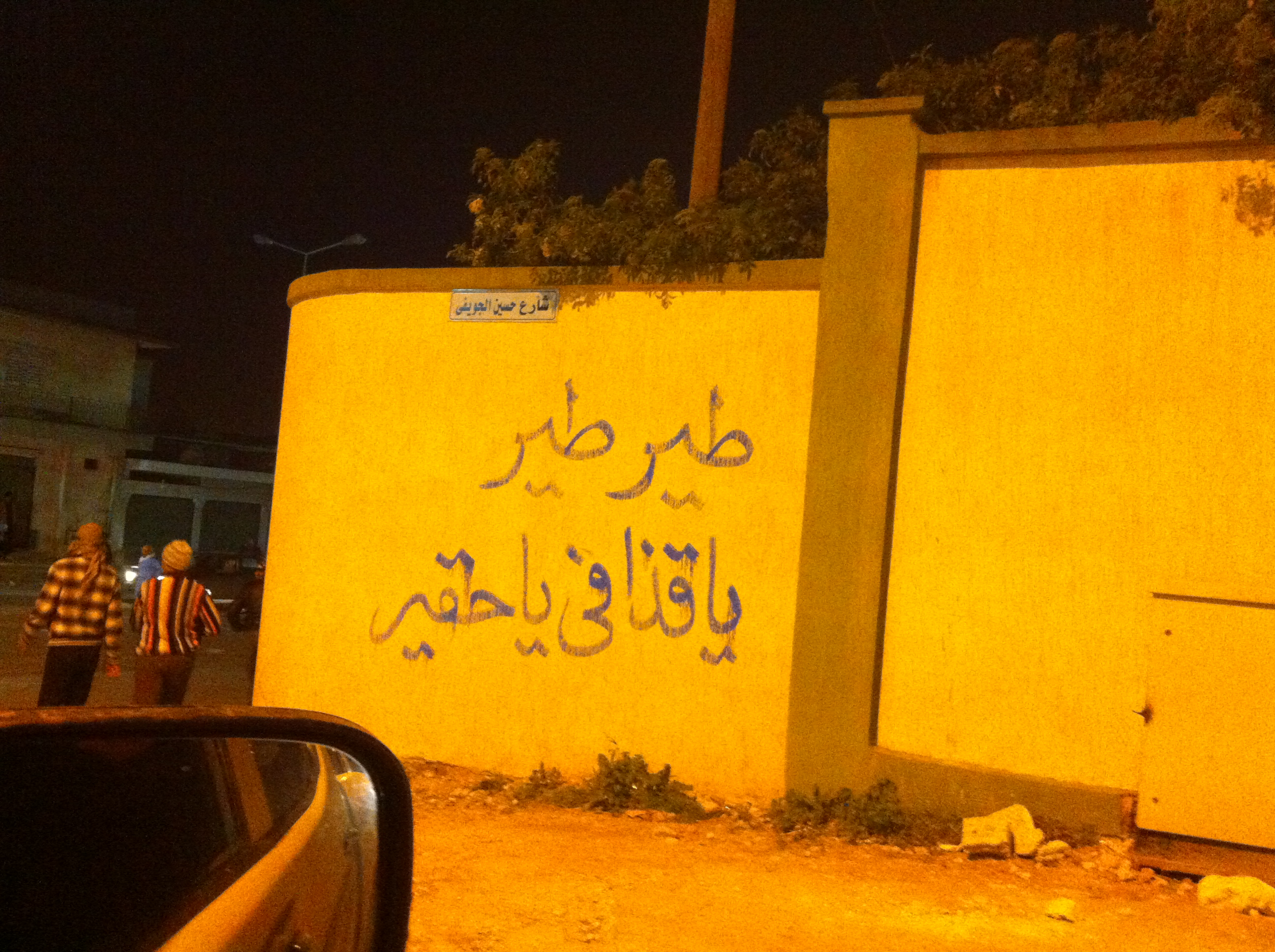 The writings of anti-Gaddafi, Bayda city. Written on the wall (Bird bird, vile Gaddafi)